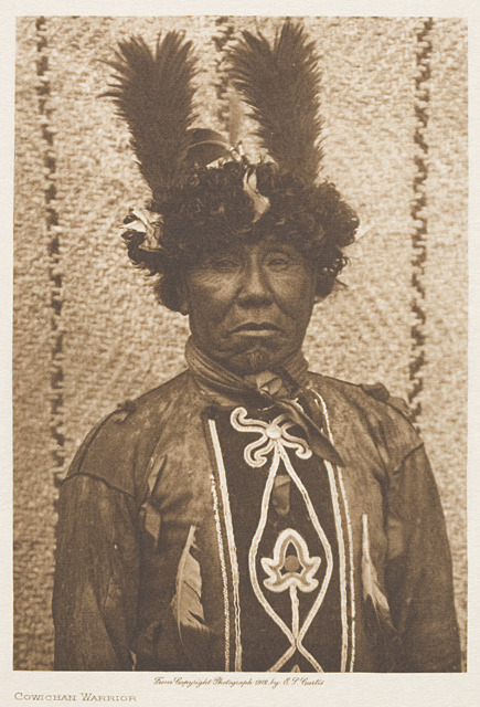 United States, 1912 Photographs Photogravure Gift of John Anton, San Diego, CA (AC1997.247.3) Photography